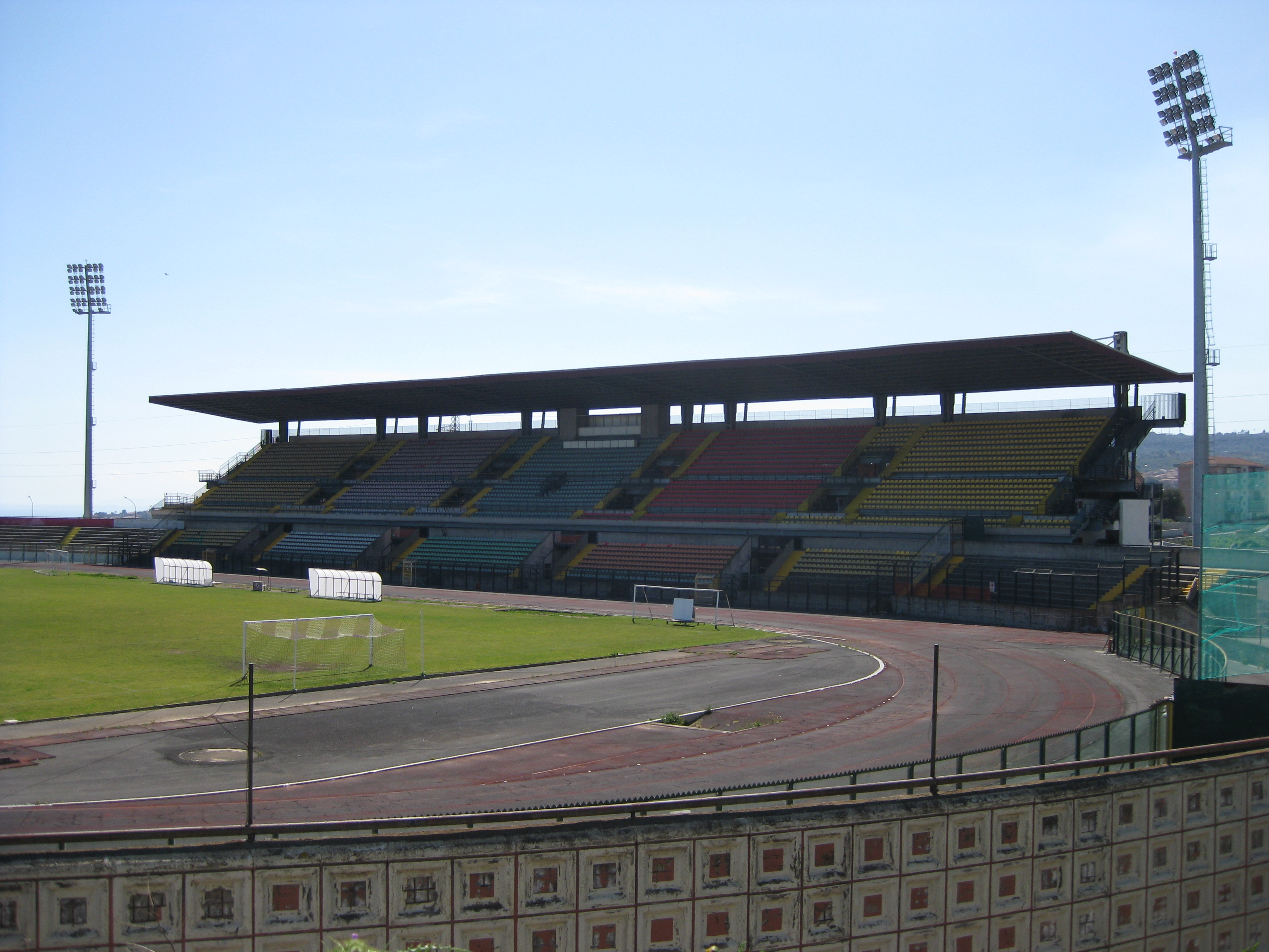 Stadio Tupparello, home of S.S.D. Acireale Calcio 1946.